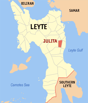 Map of Leyte showing the location of Julita